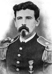 Myles Keogh, a captain, commanding company I in the U. S. Seventh Cavalry under Lieutenant-Colonel George Armstrong Custer.